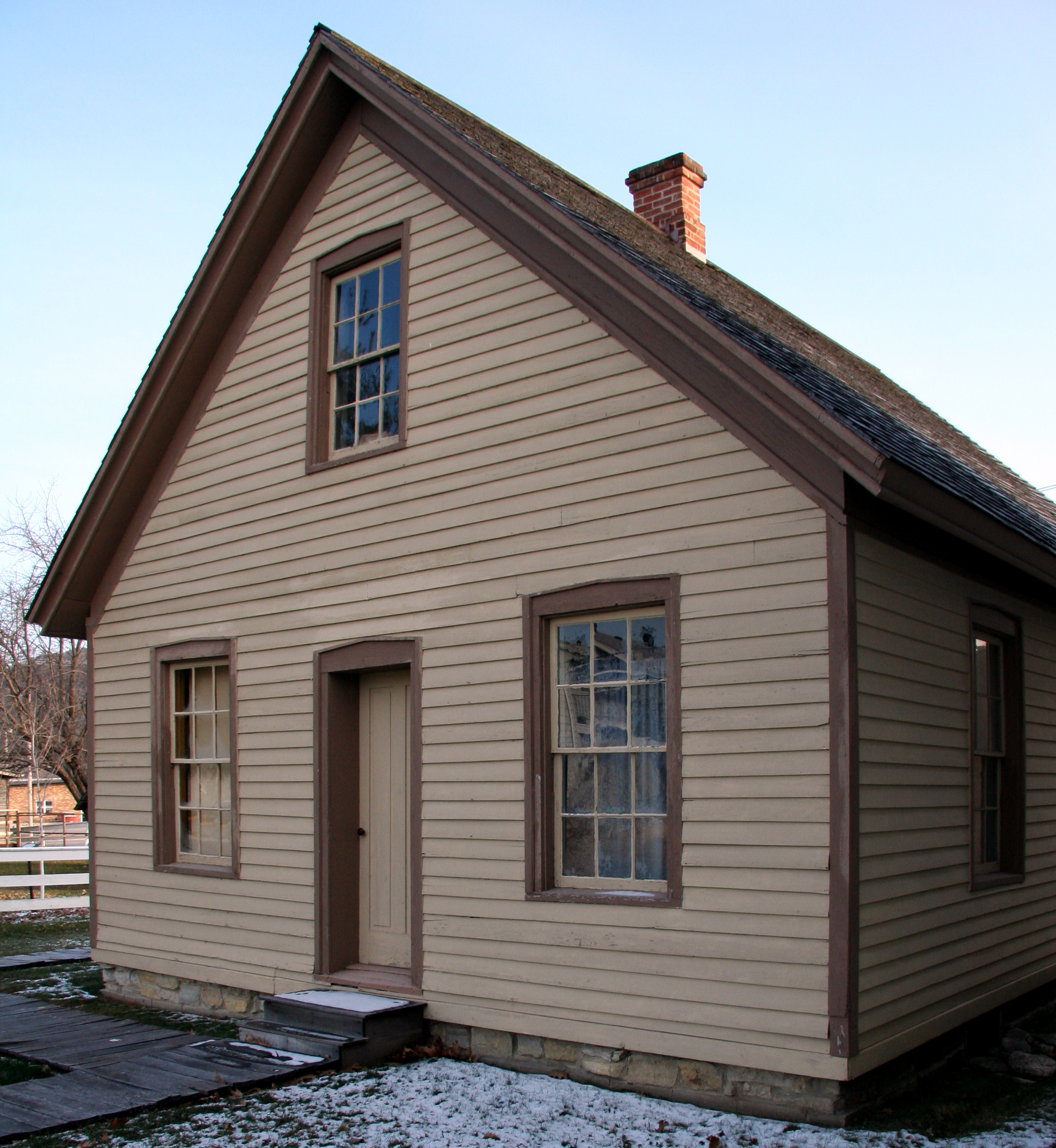 118 North Mill Street, Decorah, Iowa, in the open air division of the Vesterheim Norwegian-American Museum, listed on the National Register of Historic Places as the Norris Miller House